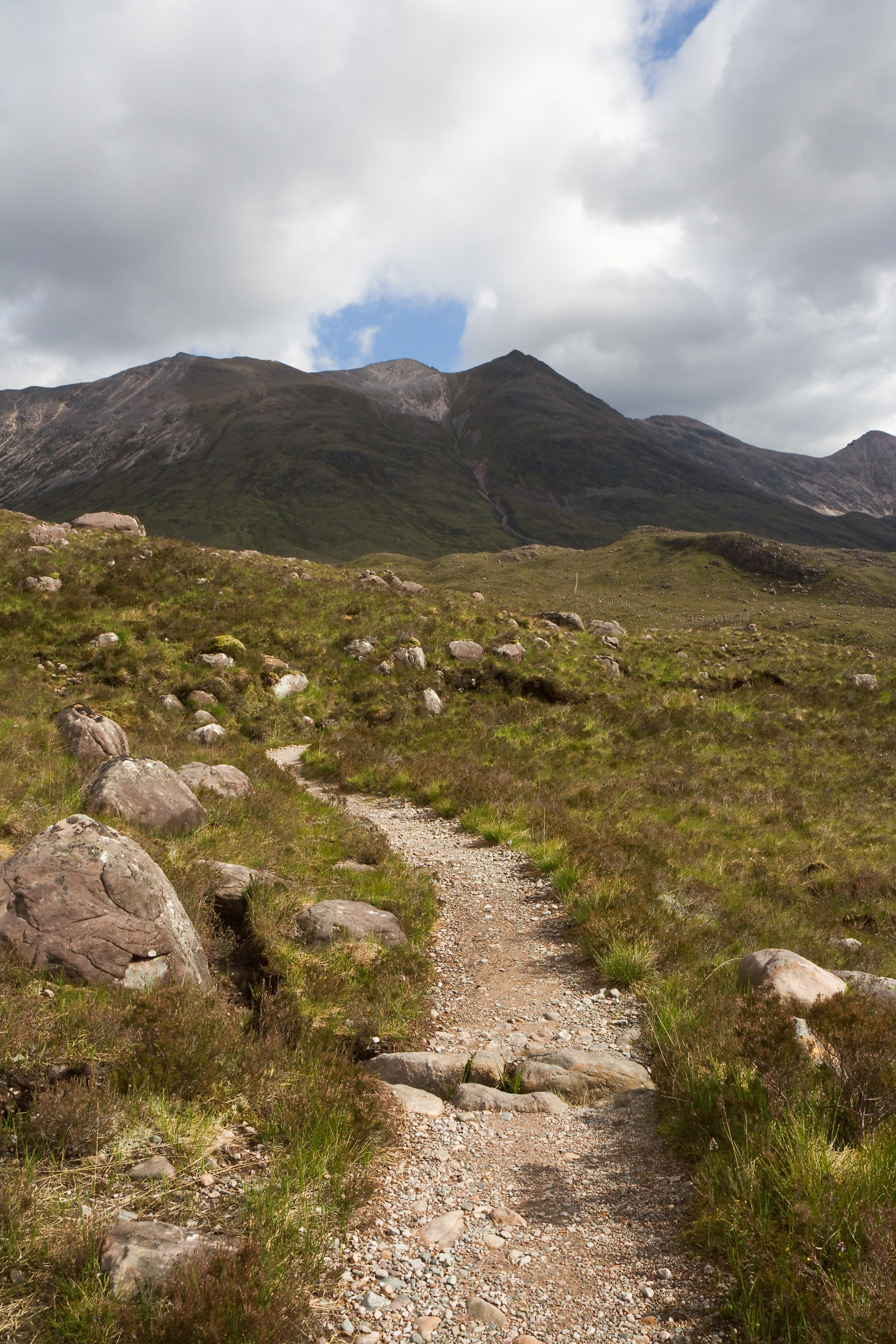 Coire Dubh Mór (valley) and the Beinn Eighe (hill); Scottish Highlands, Scotland